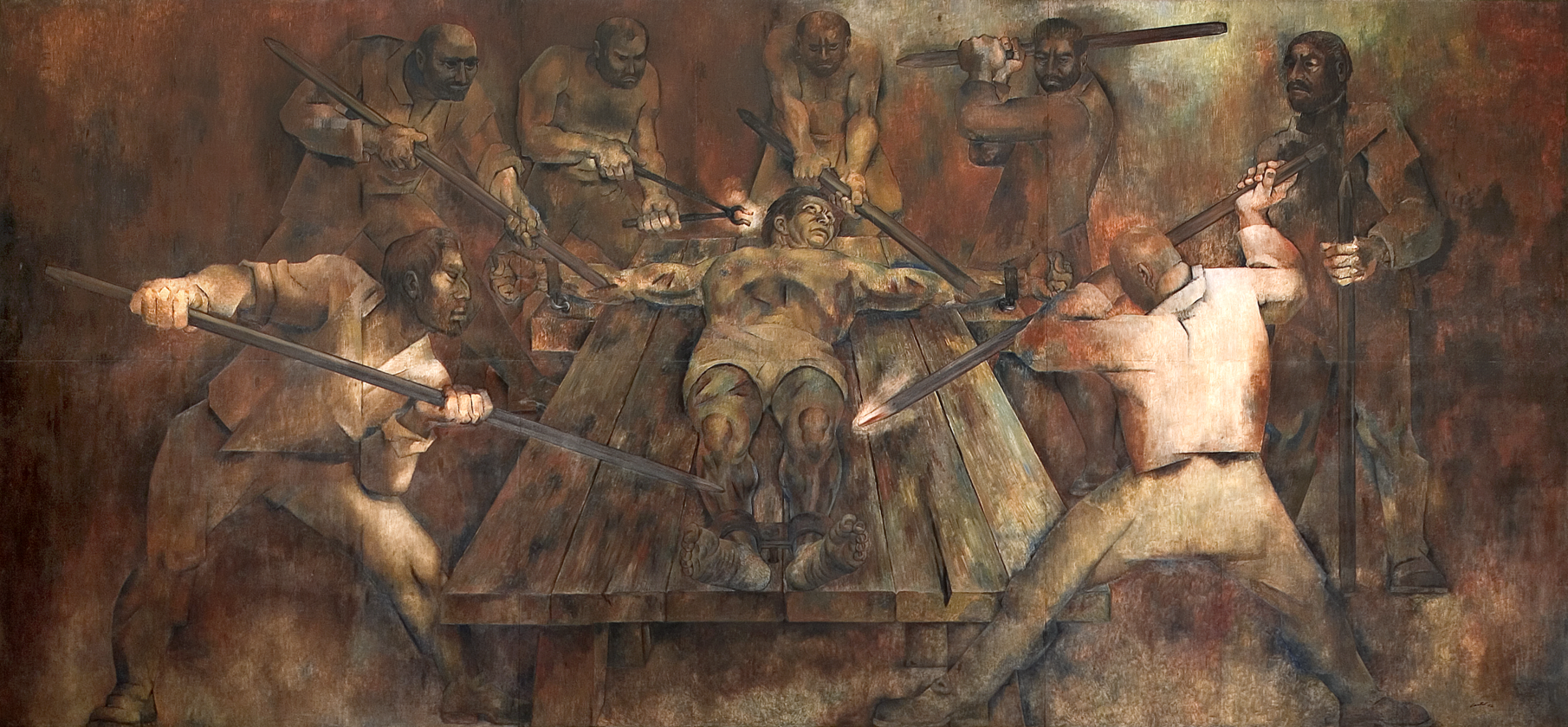 Suplicio Jacinto Canek (Mérida)